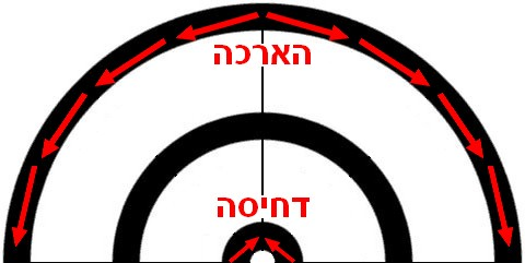 Fold arcs: inner compression arc, outer extension art